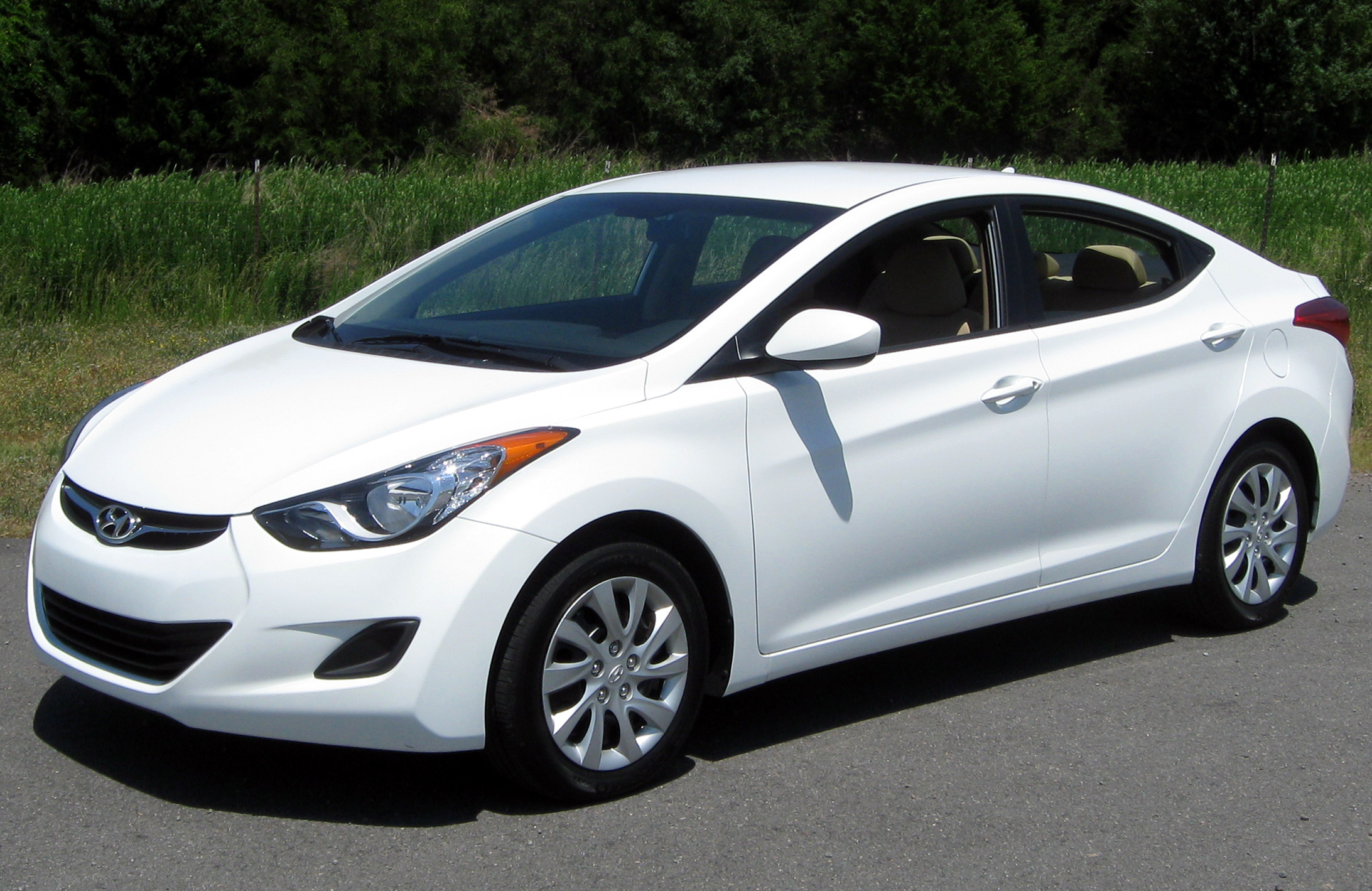 2011 Hyundai Elantra photographed in Centreville, Virginia, USA.